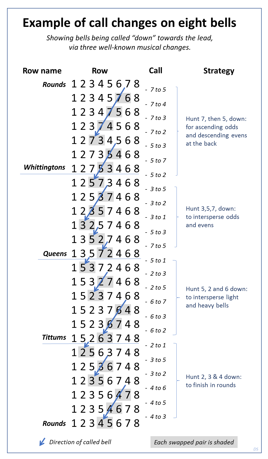 English syle call changes on eight bells, with the musical rows Whittingtons, Queens and Tittums - (WQT). The rows, calls and strategy are shown. The calls are offset between the rows to show the original row and the changed row after the call